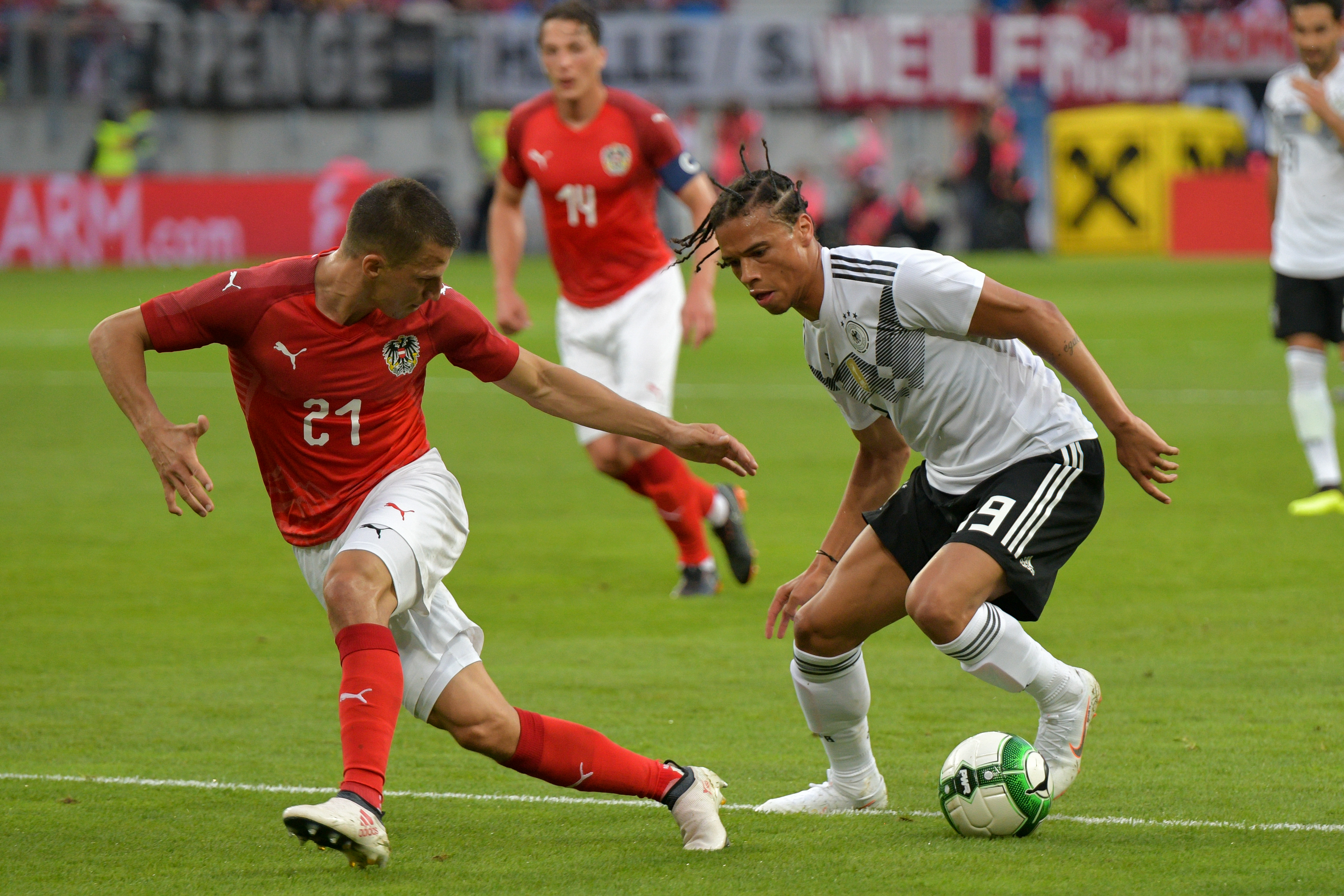 FIFA Friendly Match Austria vs. Germay 2018/06/02 in Klagenfurt/Woerthersee. Picture shows Stefan Lainer (AUT), Leroy Sané (GER)